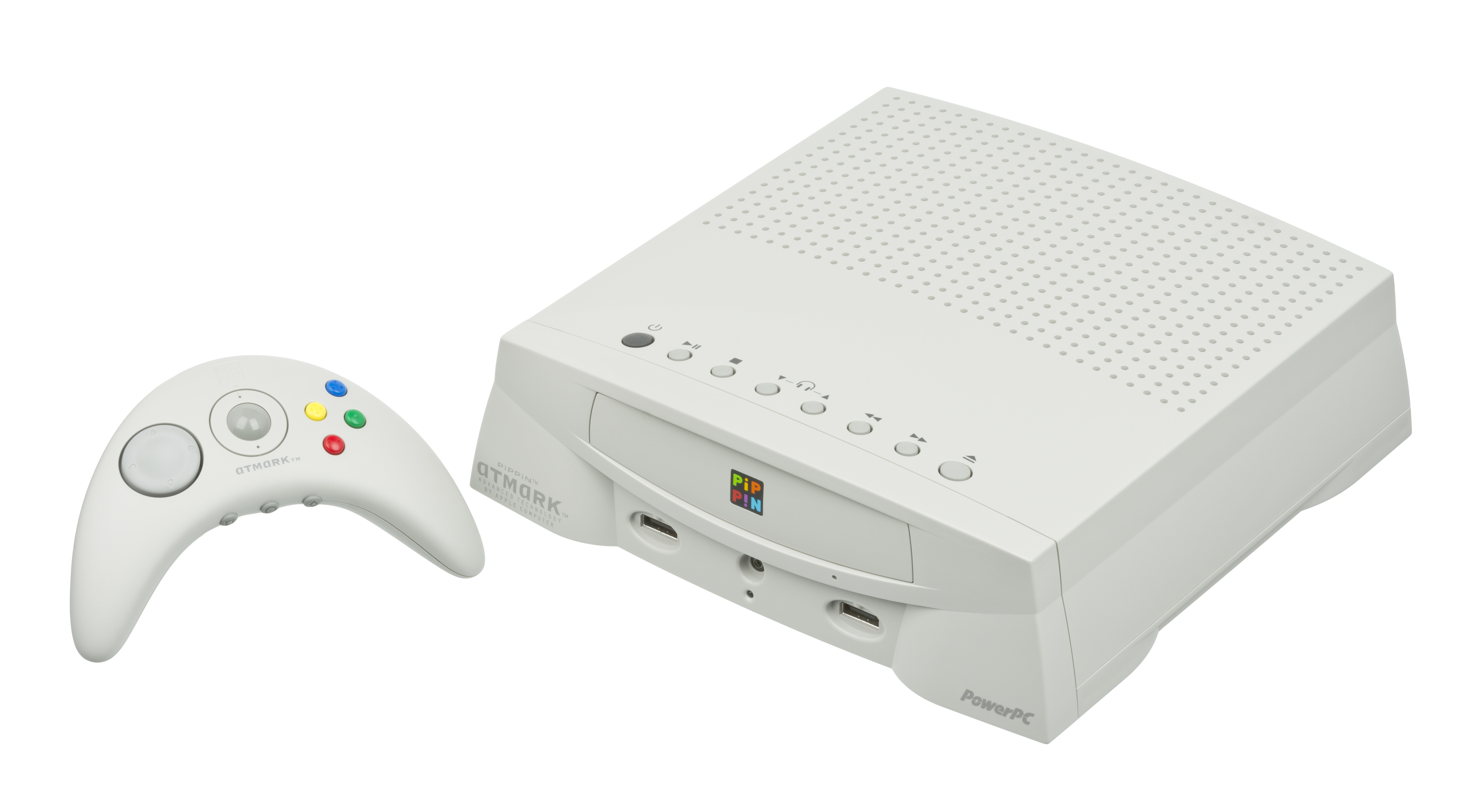 The Apple Pippin and a wireless Applejack controller. The Pippin is a video game console/computer hybrid that was manufactured by Bandai and released in 1995. This is the Japanese version, the Atmark, that was colored white. The version released in America was called the @WORLD and was colored black. The system was based on the Apple Macintosh computer that was streamlined and focused for playing CD-ROM games.